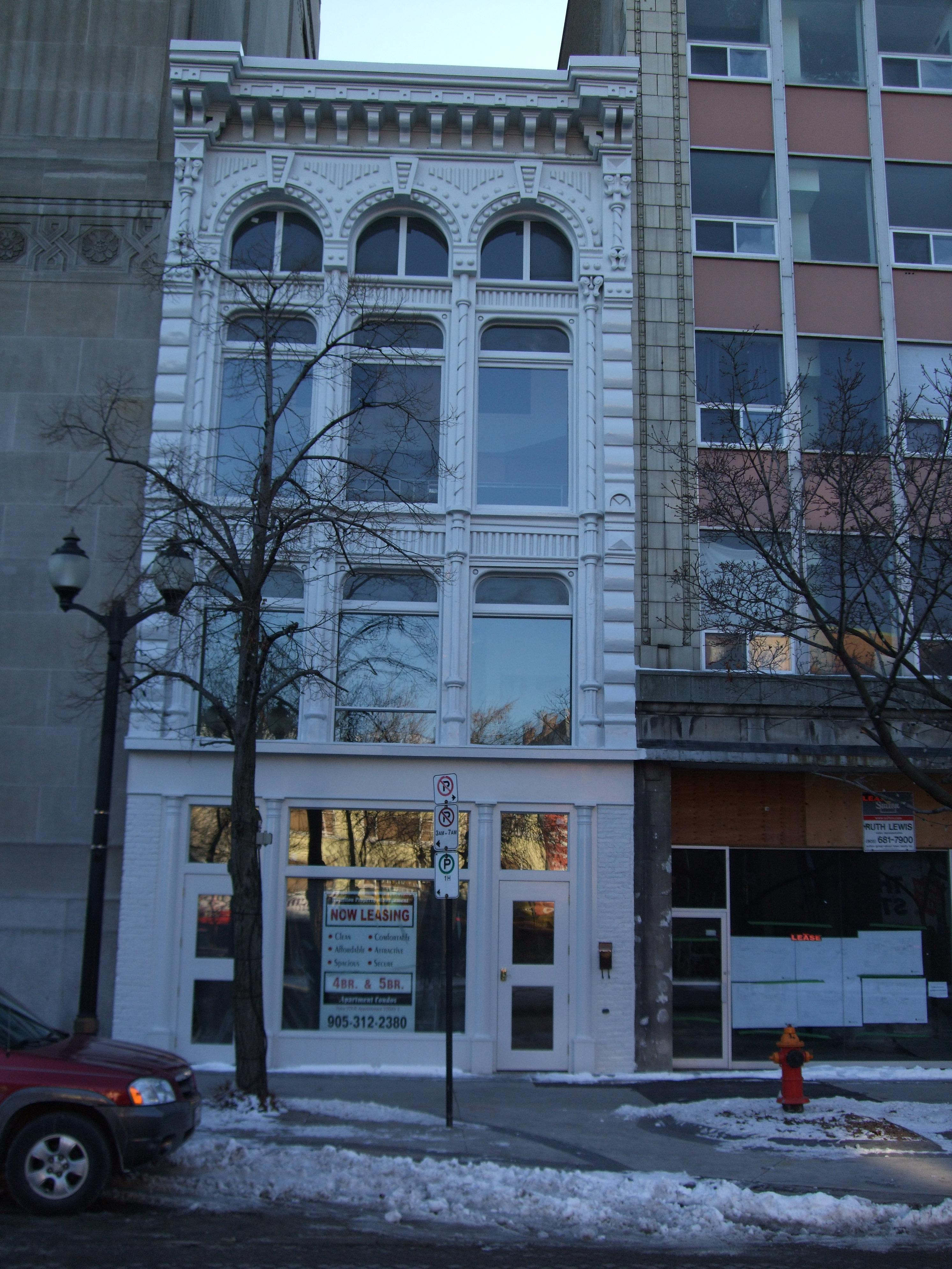 Victoria Hall, Front Elevation